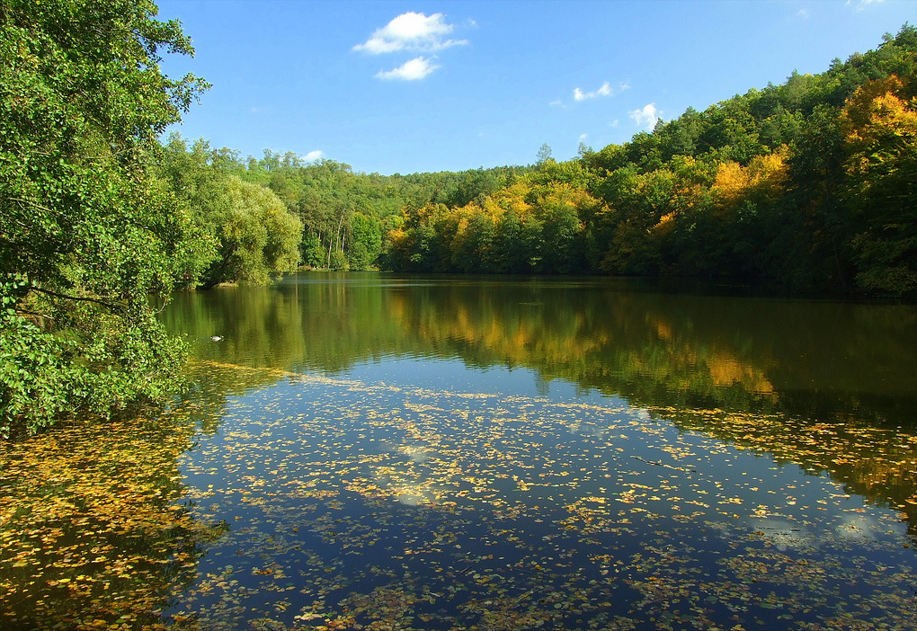 Autumn colors in Marianske udoli (near to Brno).